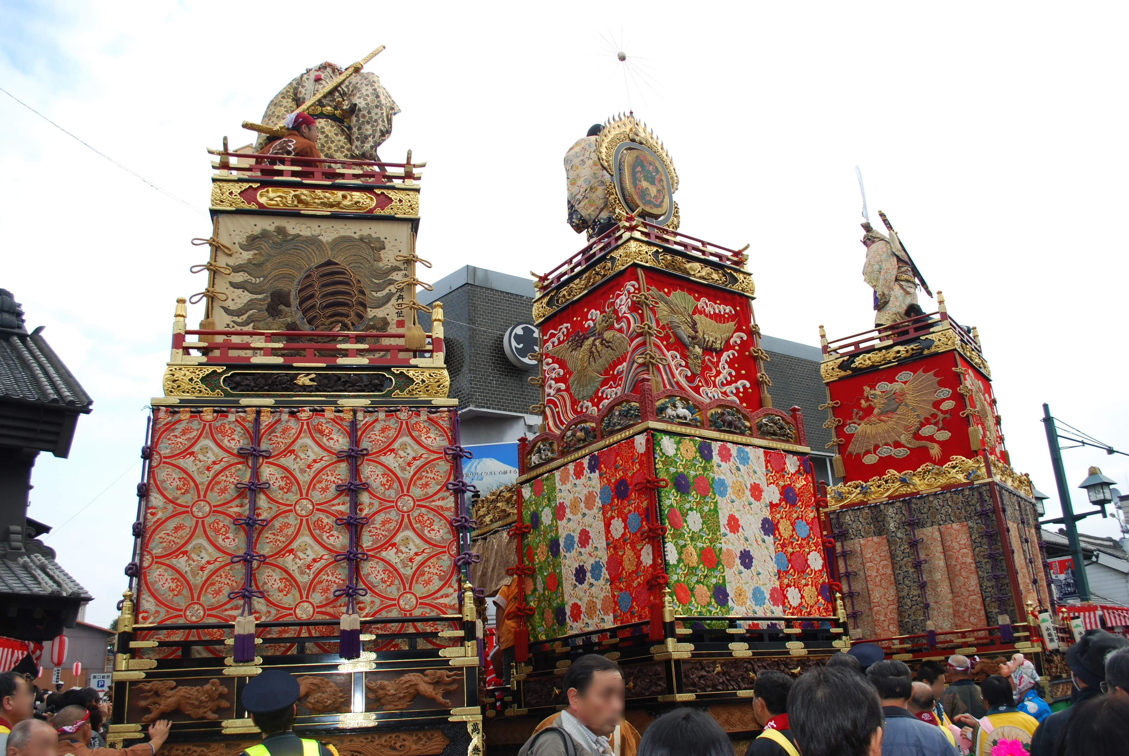 Tochigi autumn festival,festival car of Yorozucho1/2/3chome,tochigi city,japan